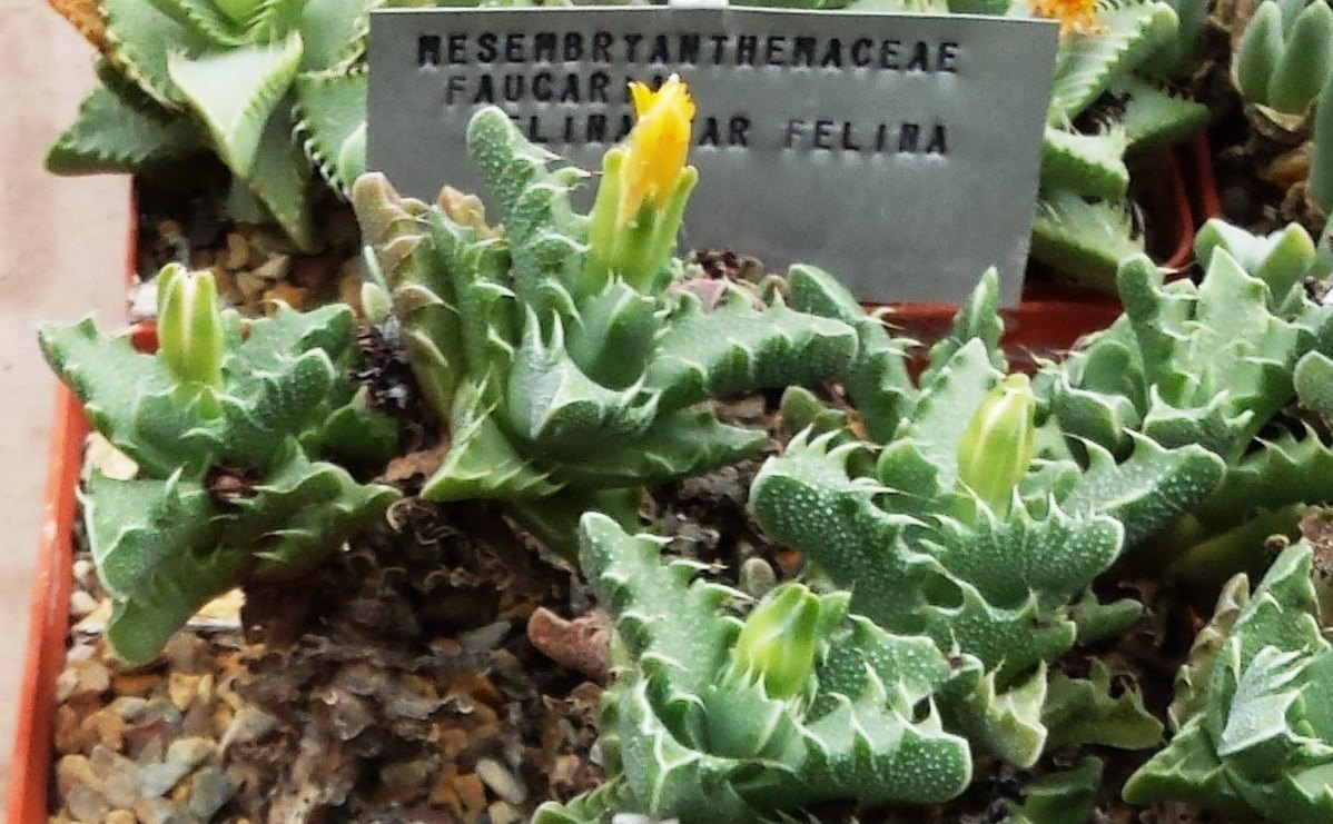 Faucaria felina var felina